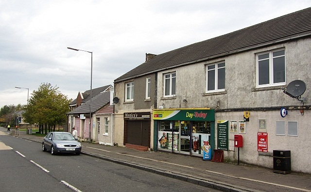 Shop, Newarthill